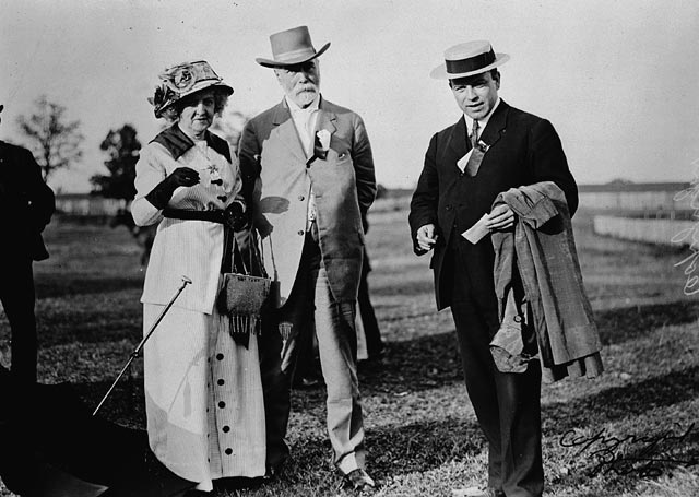 Mr. and Mrs. John King with their son Hon. W.L. Mackenzie King at Scarborough, Ontario fair.